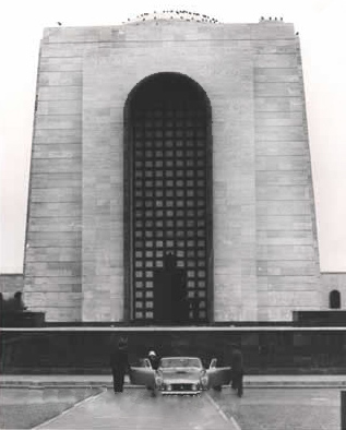 Reza Shah's mausoleum